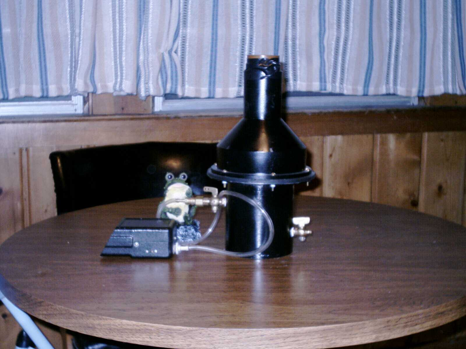 Articles author, Homade lucas cell. Photo taken in my home with my digital camera. I give my permission to let Wikipedia display my image as one example as a lucas cell.